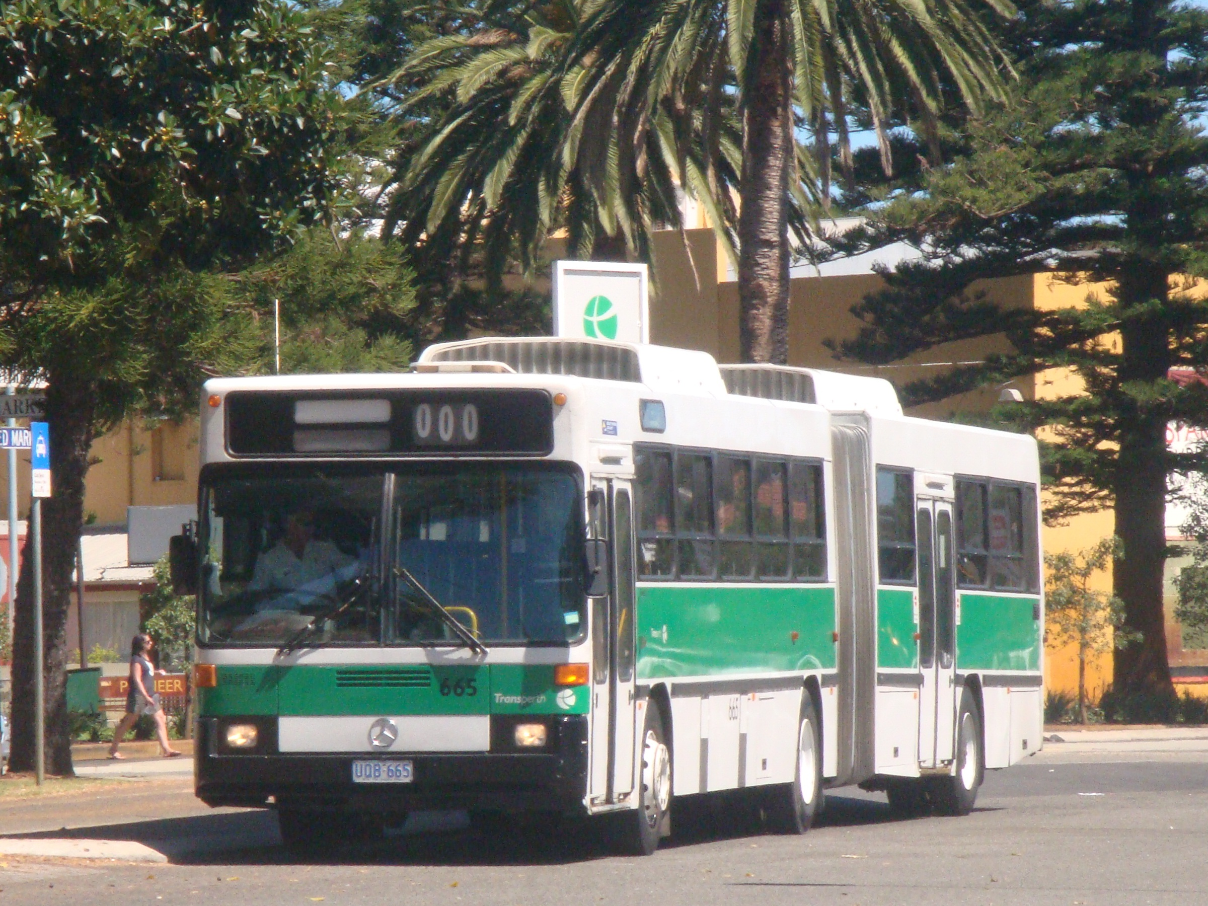 Transperth operated Mercedes-Benz O305G articulated bus (#665, UQB 665, built 1986, built with VÖV II front of the O 405) in Perth, Australia.